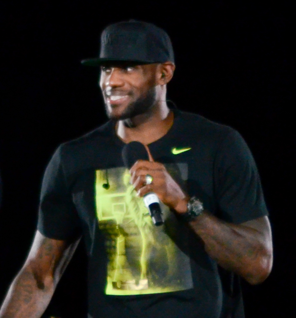 LeBron James homecoming